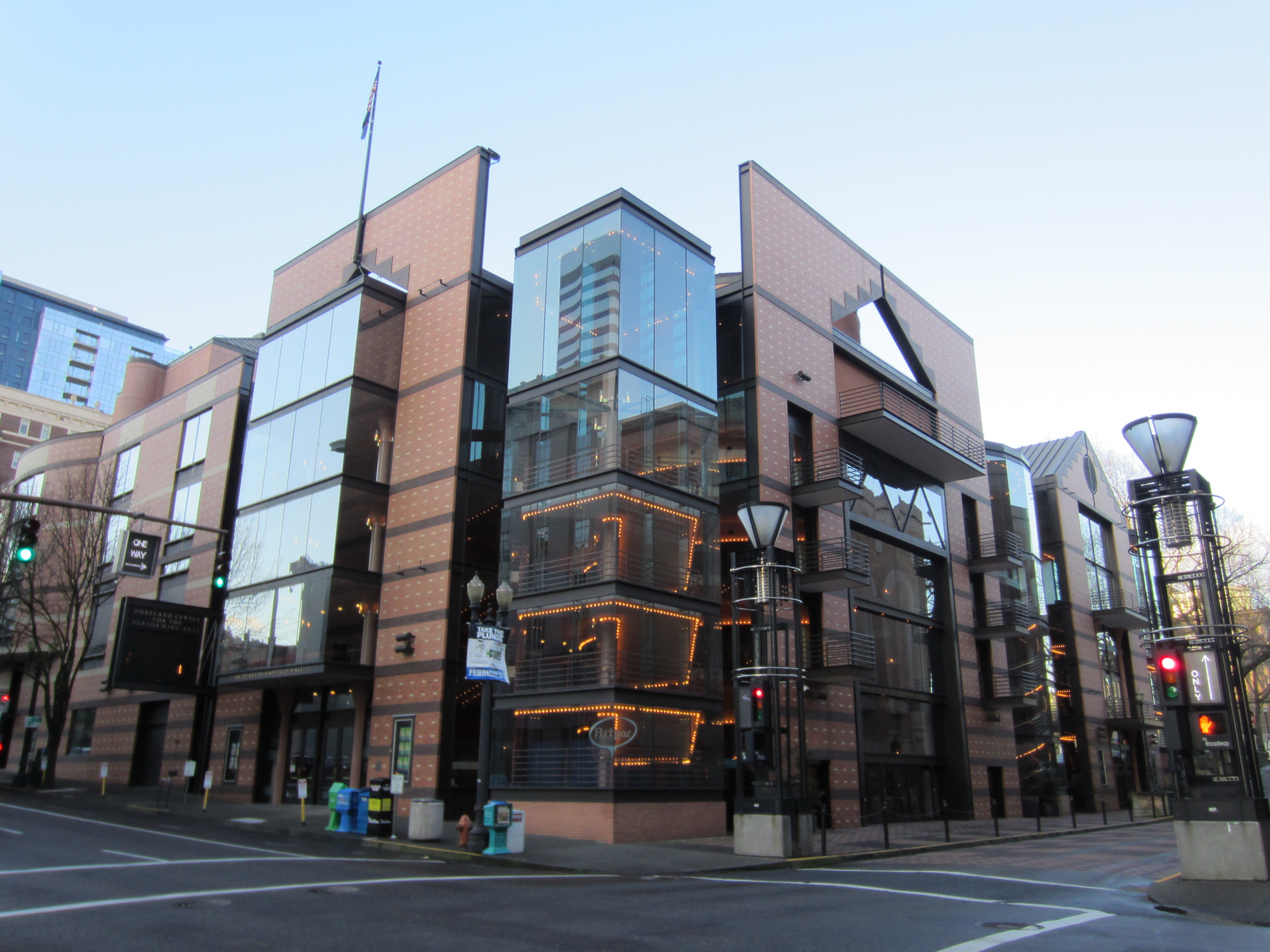 Antoinette Hatfield Hall in downtown Portland, Oregon in 2012